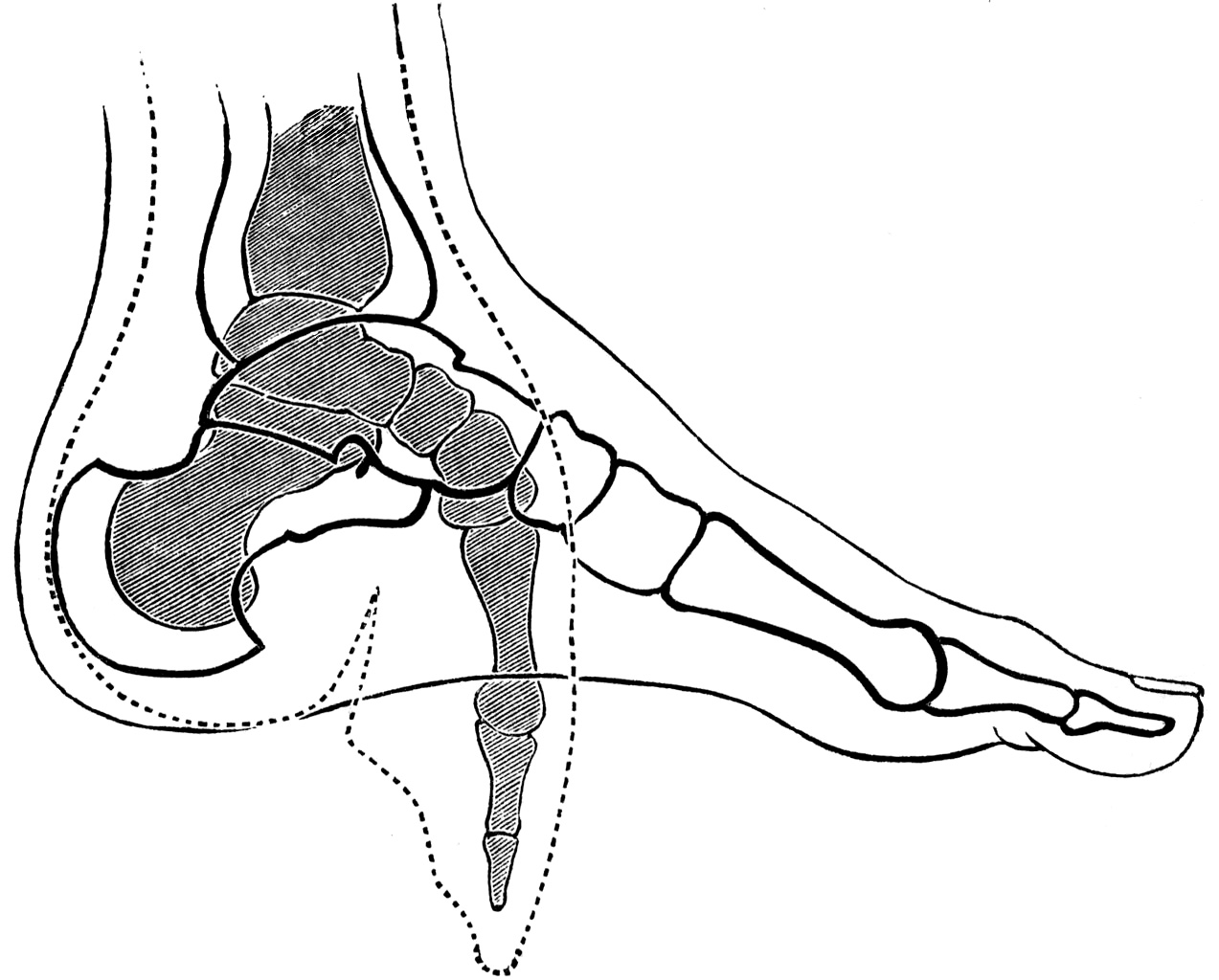 Fig. 14.--Section of Natural Foot with the Bones, and a corresponding section of a Chinese Deformed Foot. The outline of the latter is dotted, and the bones shaded.